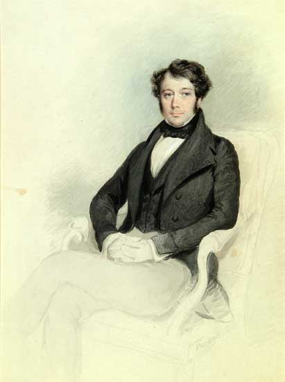 Watercolour Portrait of Henry Blunt by James Canterbury Pardon (1794–1862)